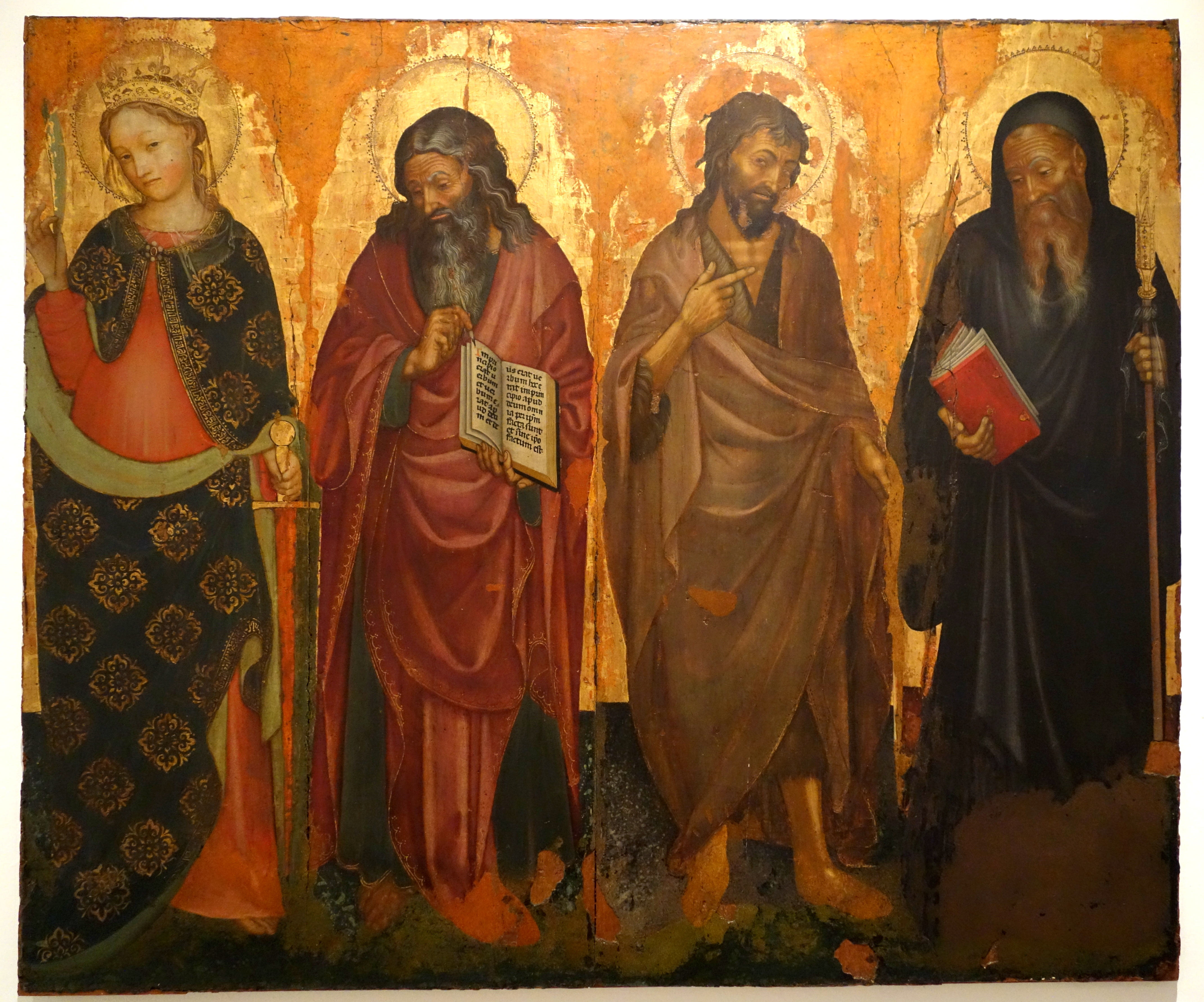 Exhibit in the Accademia Ligustica di Belle Arti, Genoa, Italy. This artwork is old enough so that it is in the public domain.